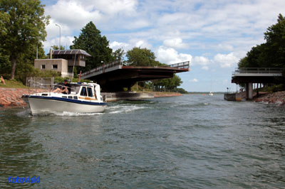 Lemströms channel south of Mariehamn. Photograph by Henryk Kotowski